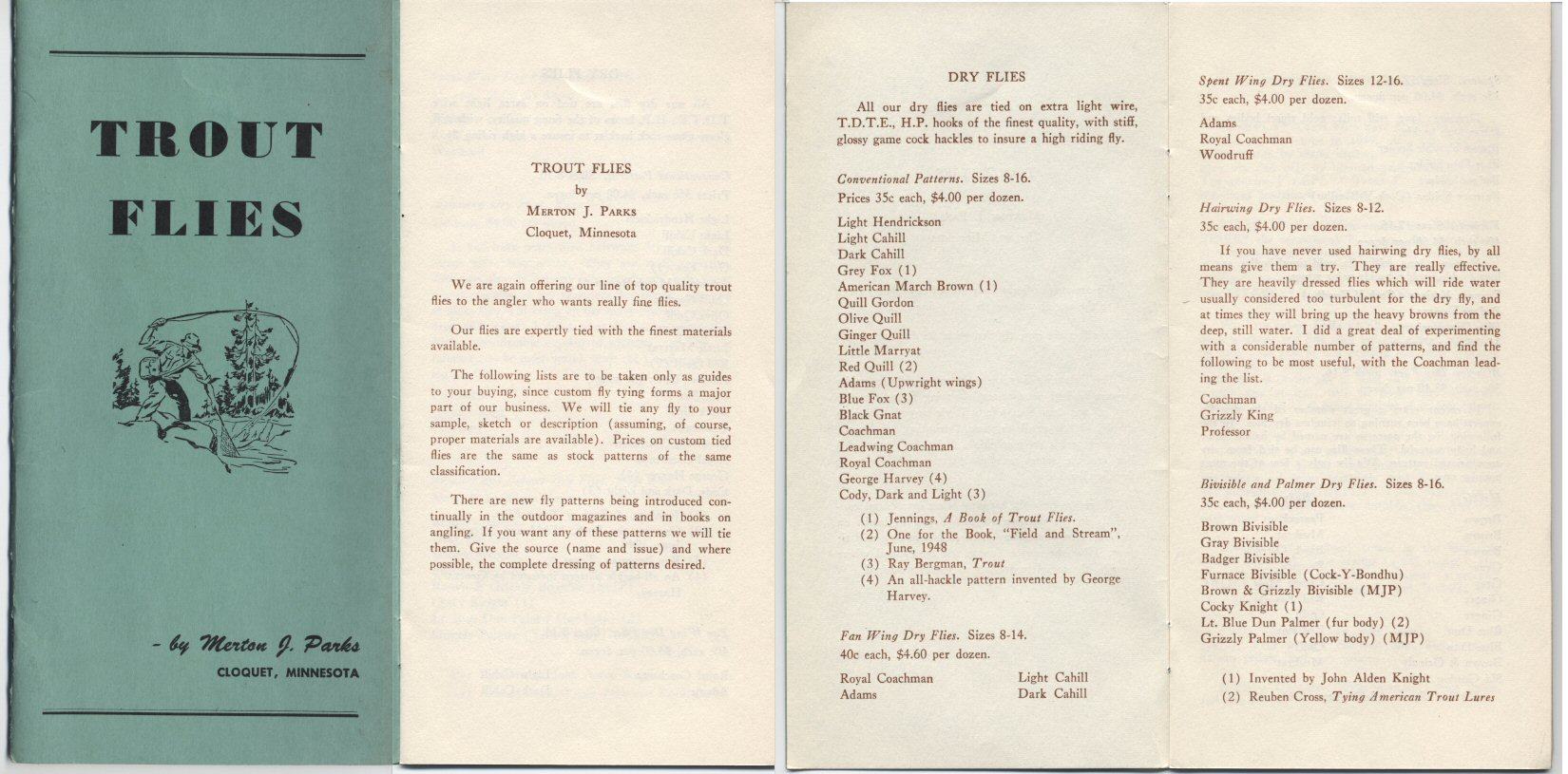 Composite of pages from a fly tying catalog: Trout Flies, by Merton J. Parks, Cloquet, MN circa 1950